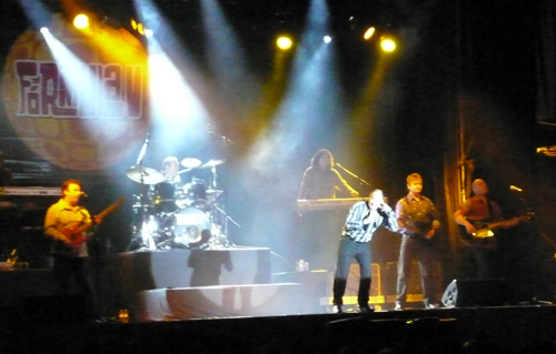 Formula V in Madrid (2008)